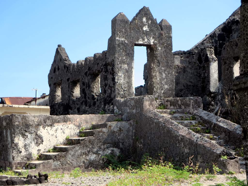 The 16th century Palais de Kaviridjeo at Iconi on southwestern Grande Comore, Union of the Comoros, was once the seat of the Sultan of Bambao.